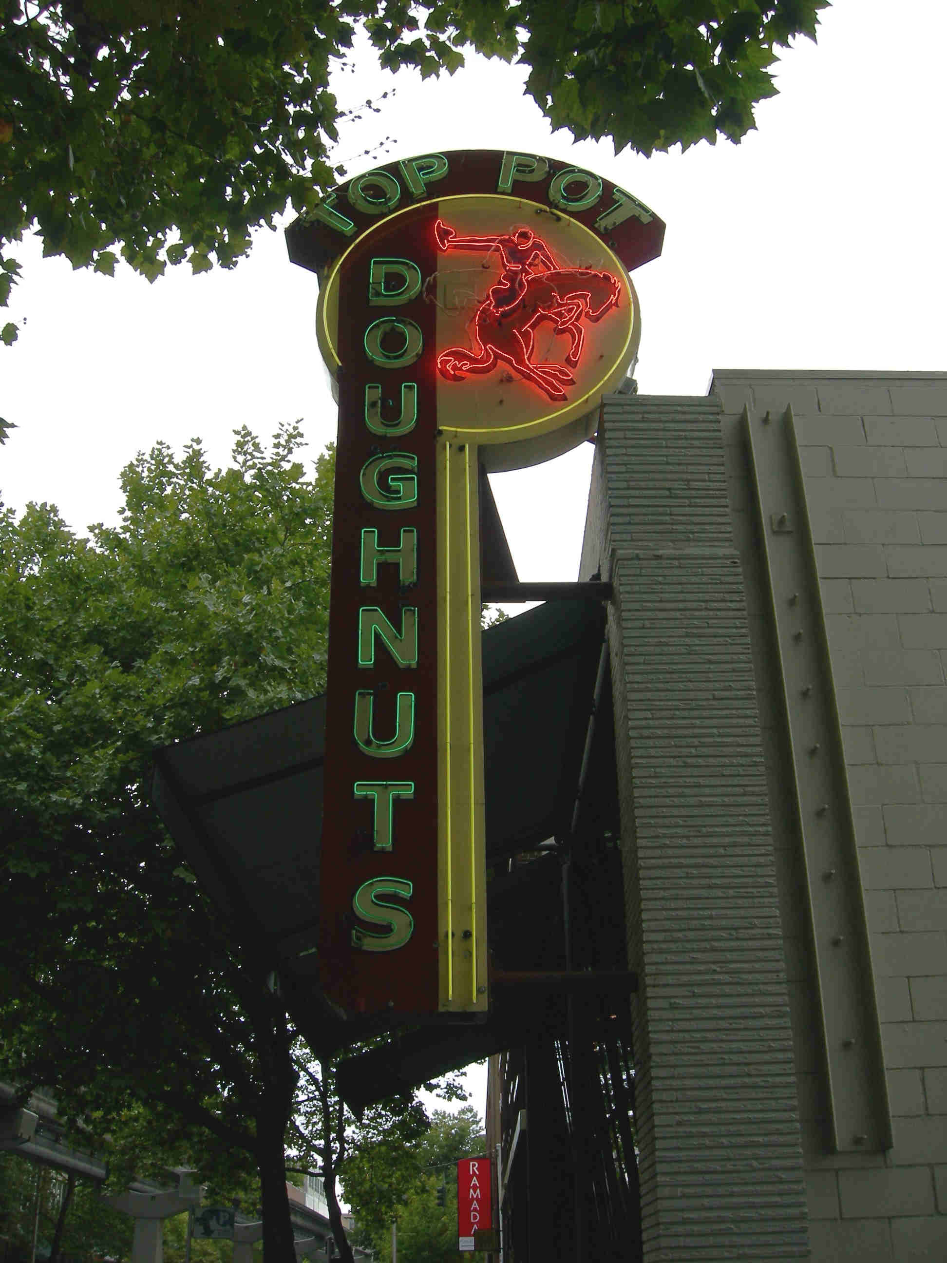 Top Pot (Donut shop / coffeehouse) on Fifth Avenue in Belltown (the north part of downtown), Seattle, Washington. The building was previously the office of an architecture firm.